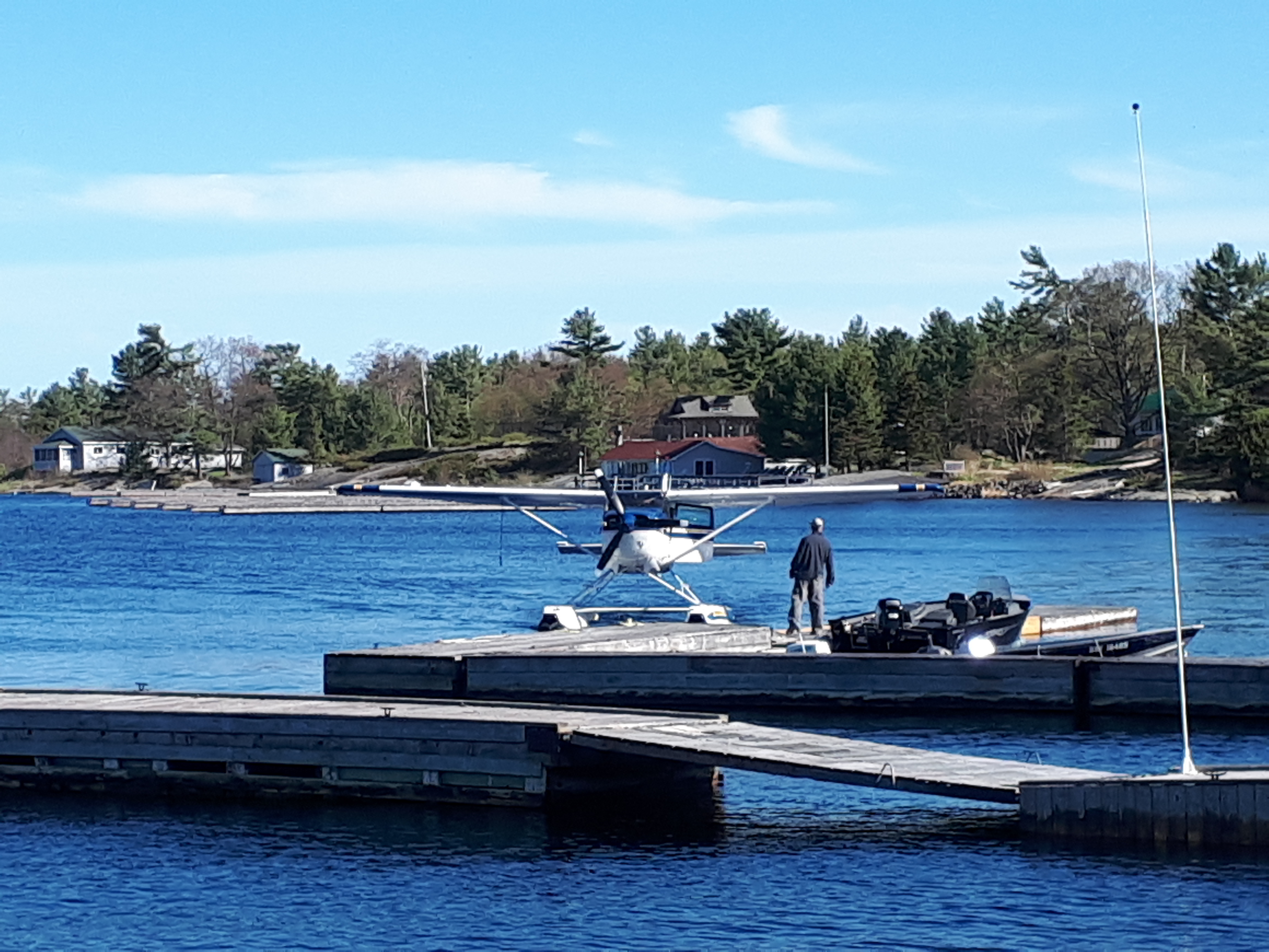 Float plane landing at the Parry Sound/Frying Pan Island-Sans Souci Water Aerodrome.